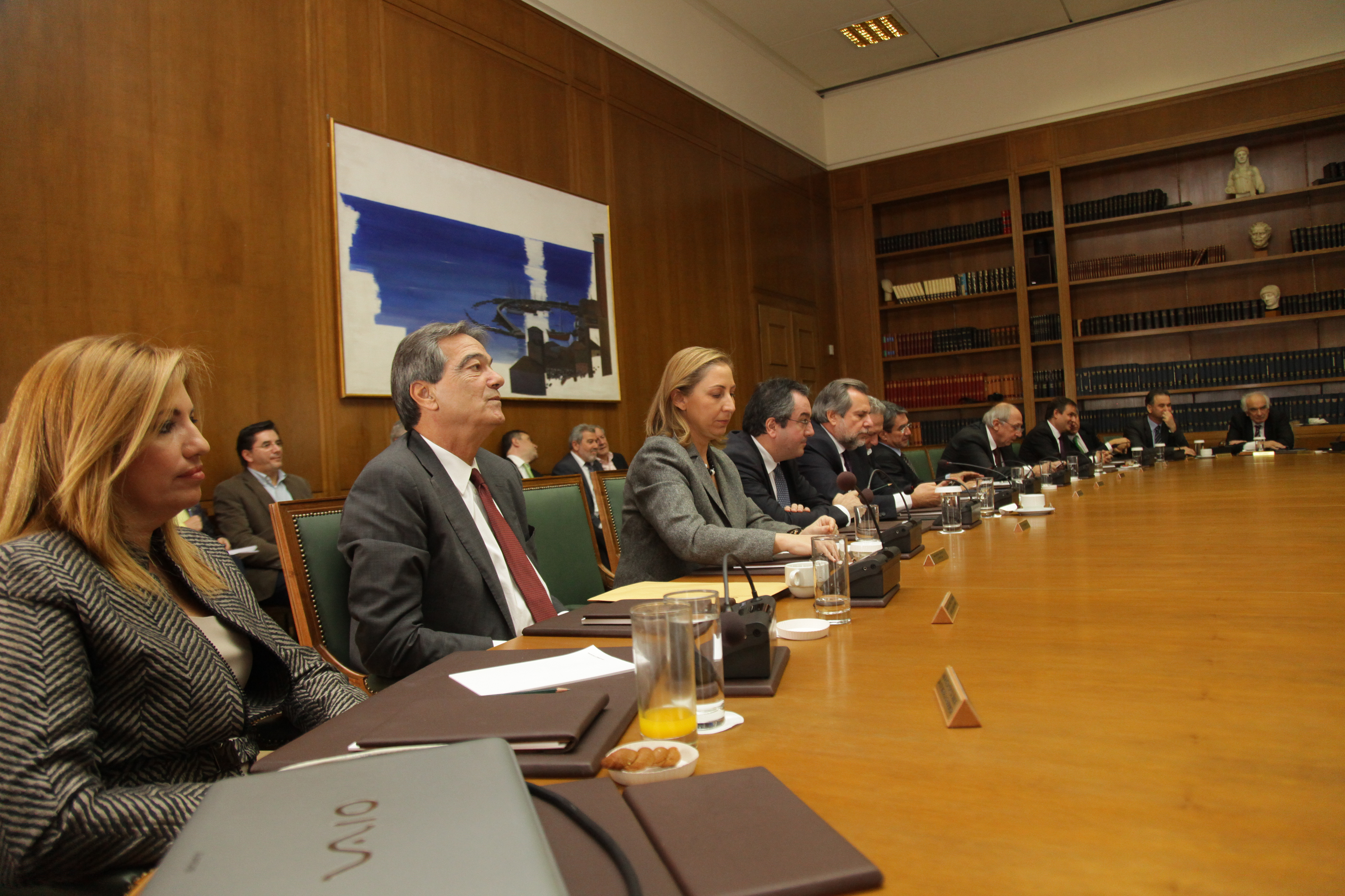 Meeting of the Greek cabinet (George Papandreou government).